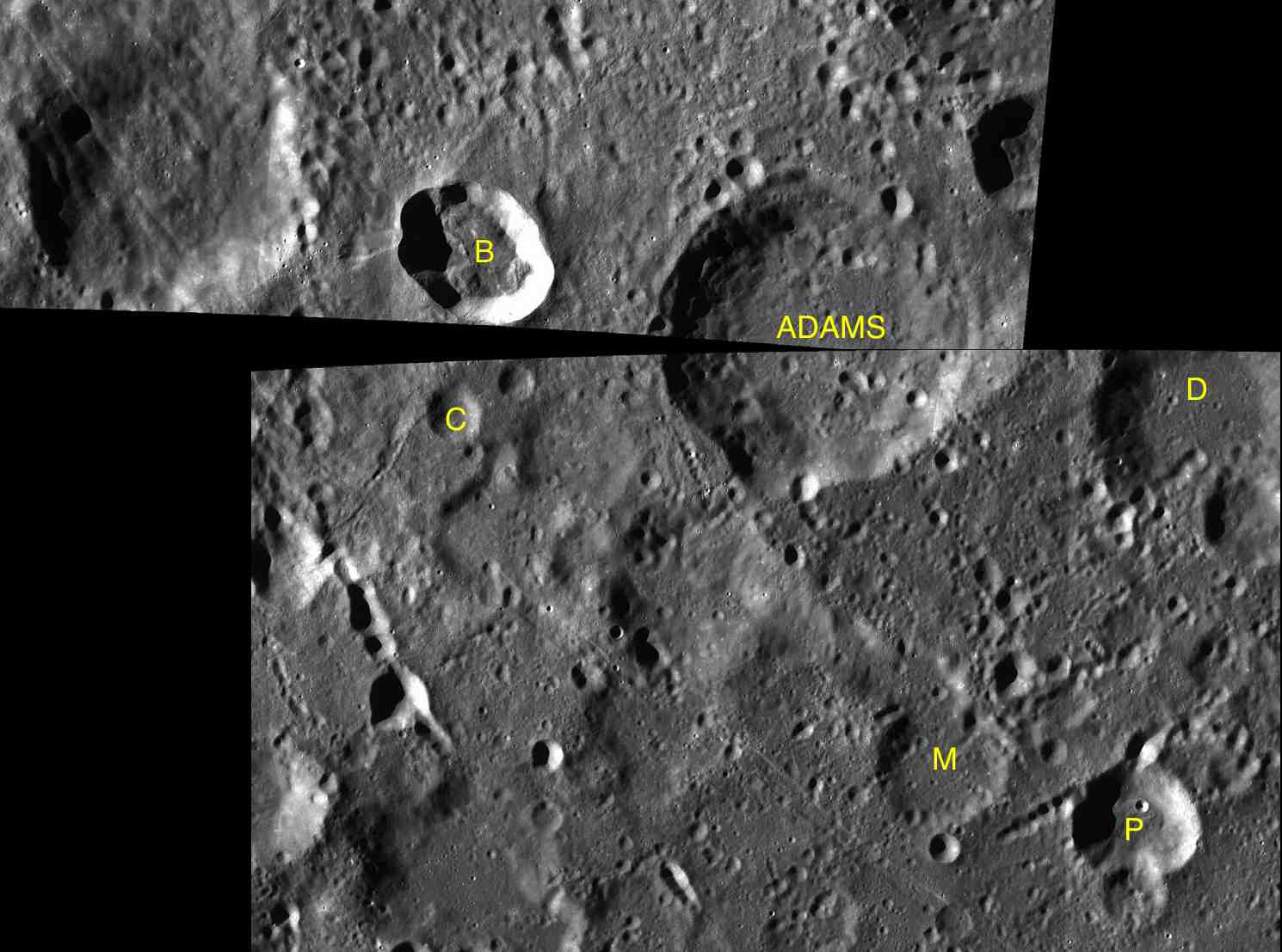 Parts of the charts LAC-98,LAC-115 used for the presentation